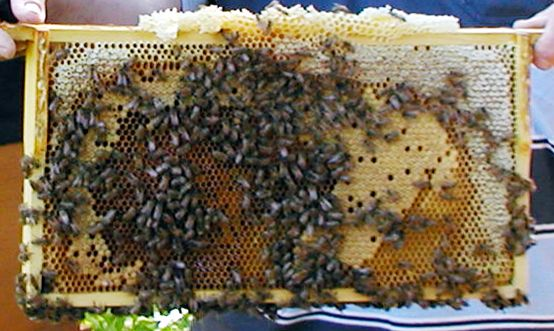 Description: Broodcomb with a honeycover